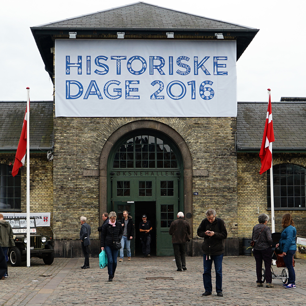 The history festival Historiske Dage 2016 (April 2016) - entrance to the festival at Øksnehallen in Copenhagen, Denmark